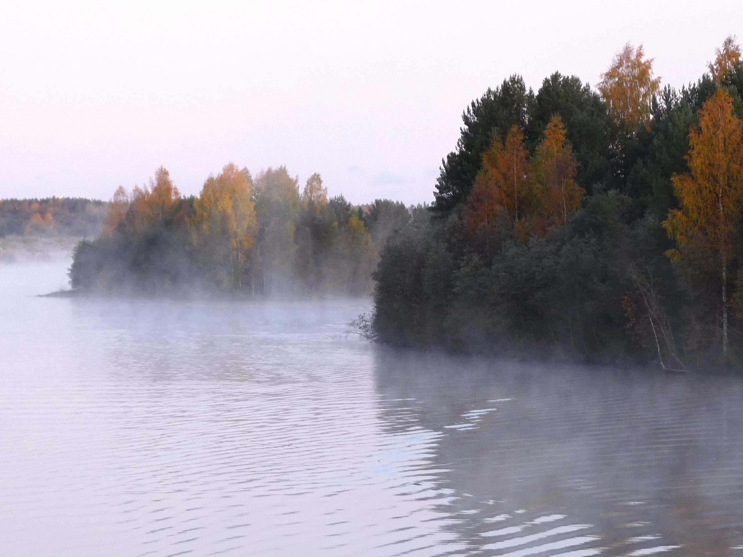 Sheksna River.